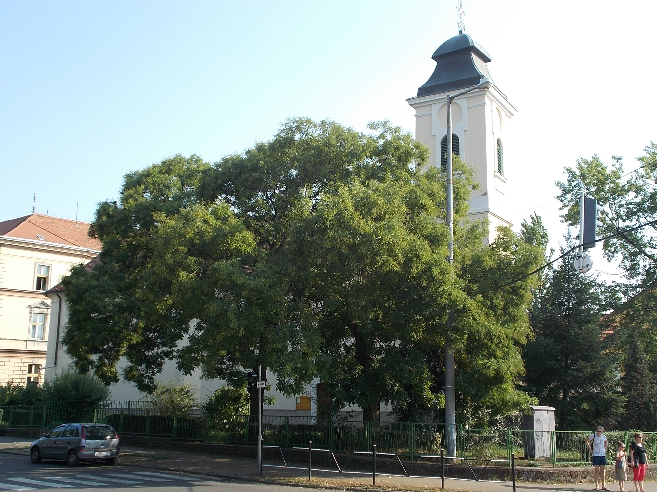 Elizabeth of Hungary church. Listed ID 5689. Baroque church with medieval elements (Architect: Kristof Quadri). In 1804 the tower heightened (Architect: Károly Rabl). - Kossuth Street, Gyöngyös, Heves County, Hungary